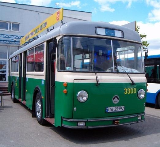 Saurer 4IILM historic trolleybus 3300 in Gdynia. Built in 1957, it is ex-St. Gallen, Switzerland 128, acquired secondhand by Warsaw's trolleybus system in 1992 and later re-sold to Gdynia.